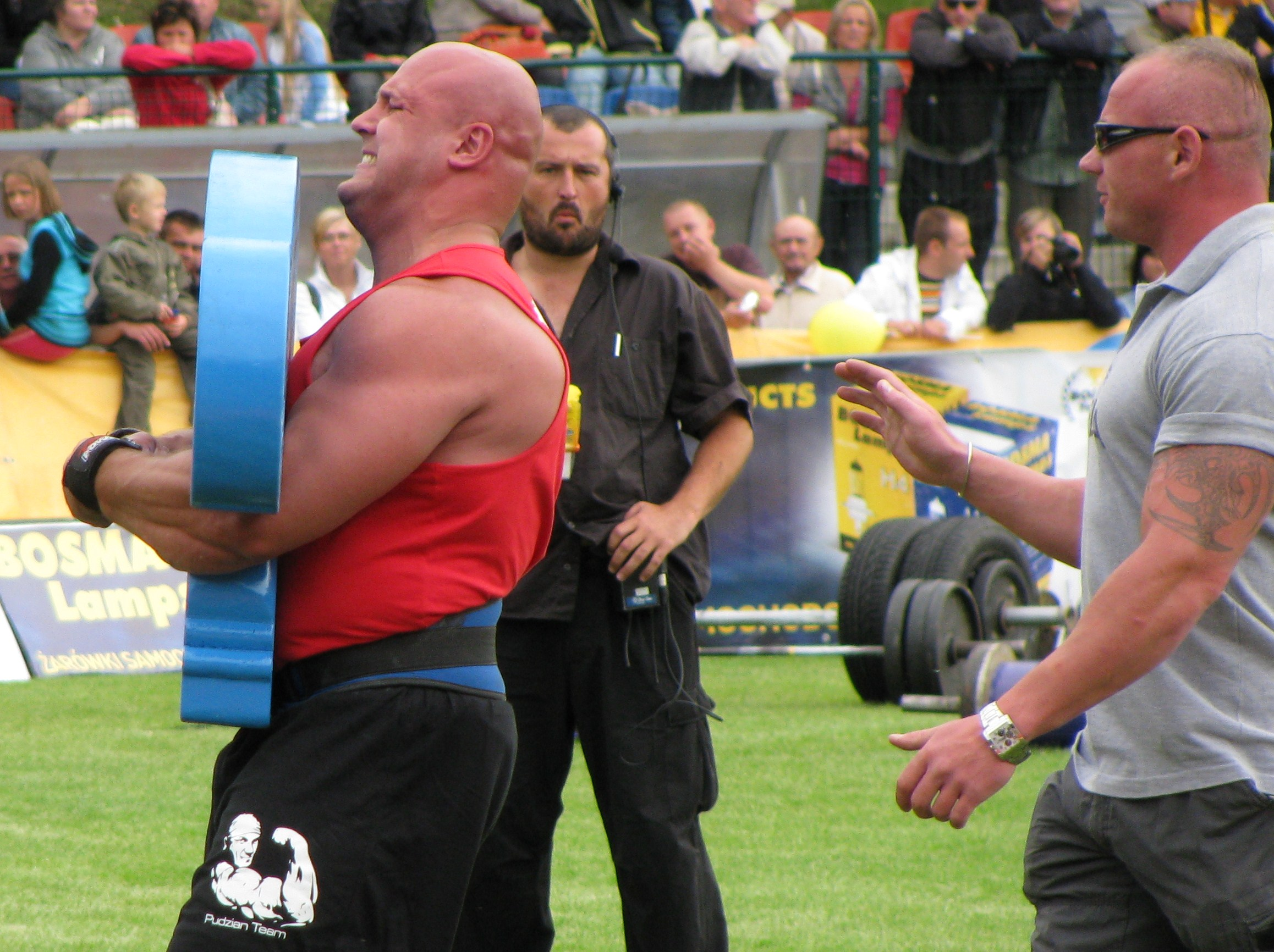 Tomasz Zocholl - a strength athlete from Poland